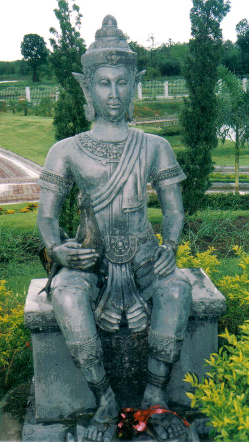 Phra Ruang is a king who is believed to have reigned Central Thailand. An imaginary king.